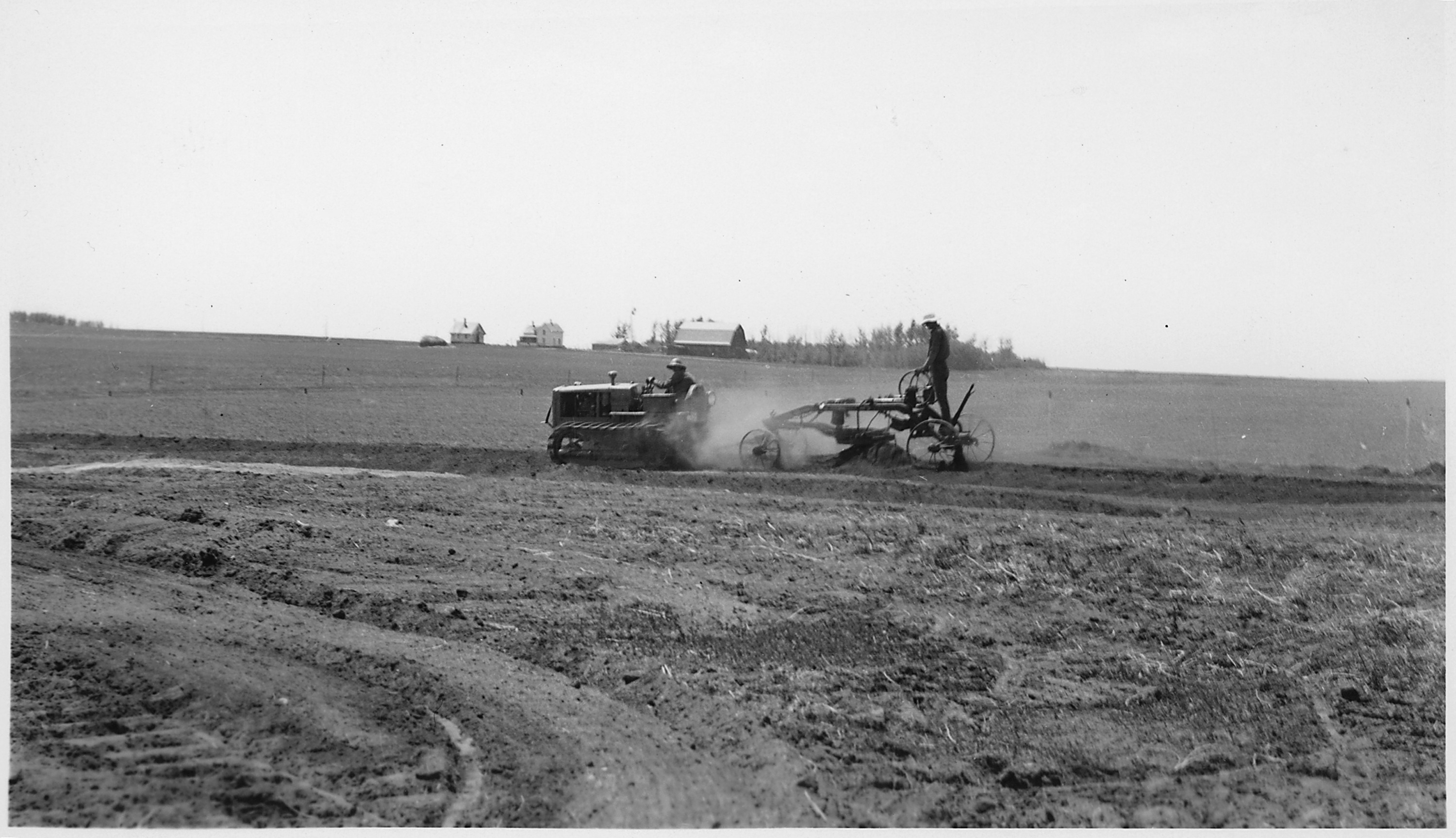 Scope and content: A small bulldozer pulling a riding plow in a huge area of open fields, with farm buildings and crops in background.